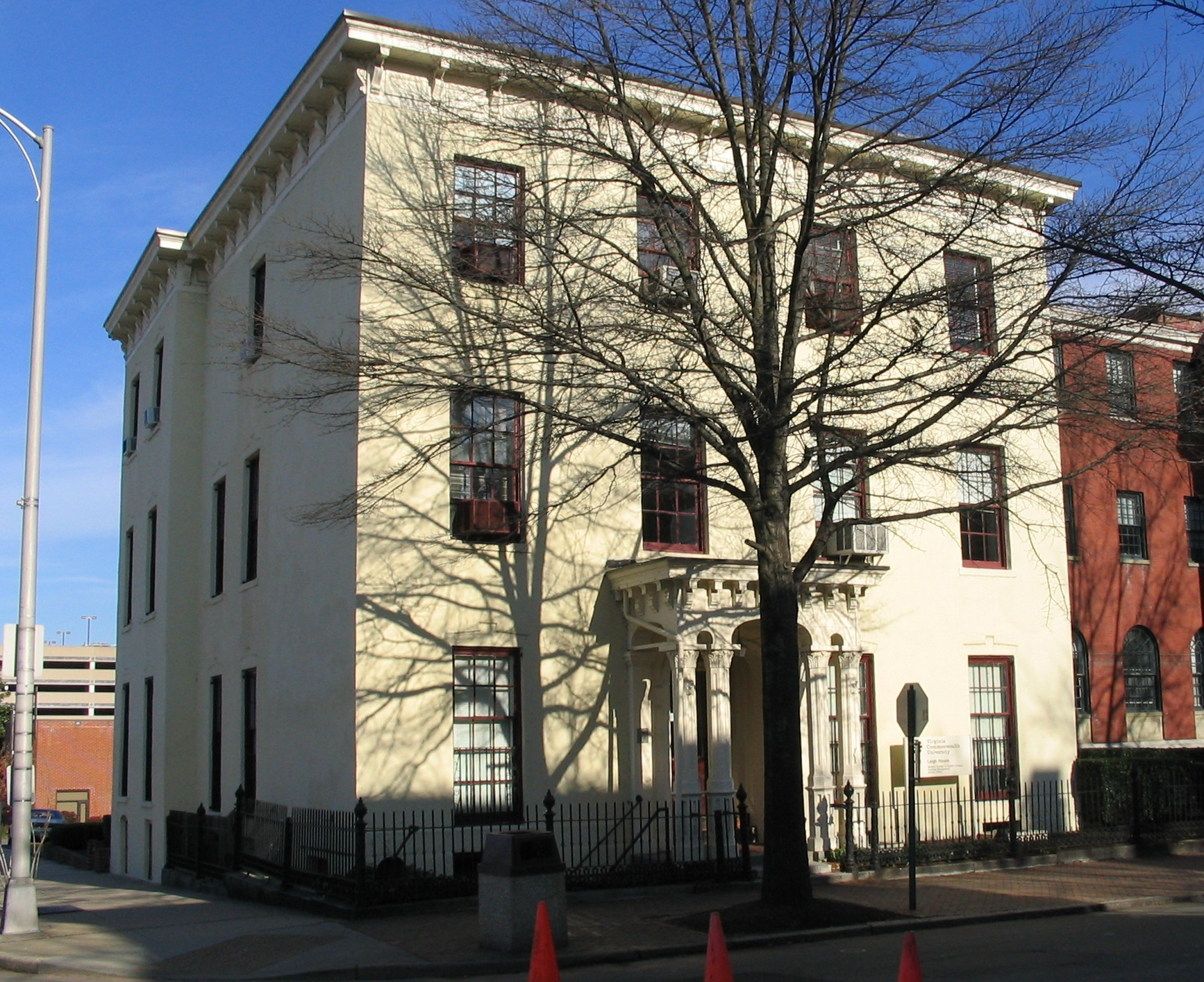 The Benjamin Watkins Leigh house in the Court End neighborhood of Richmond, Virginia; on the National Register of Historic Places